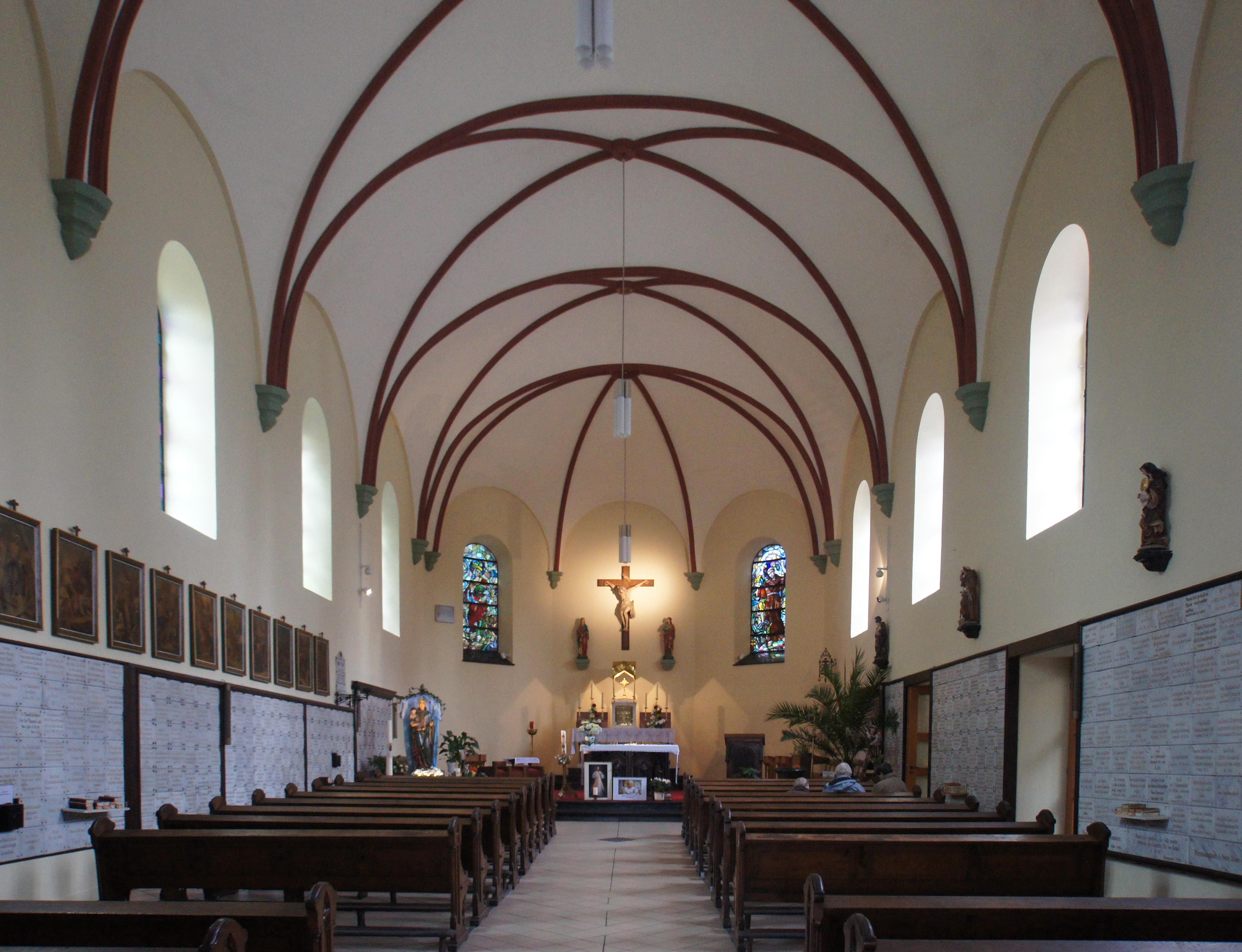 Moresnet (Moresnet-Chapelle), Belgium: Interior of the Chapel